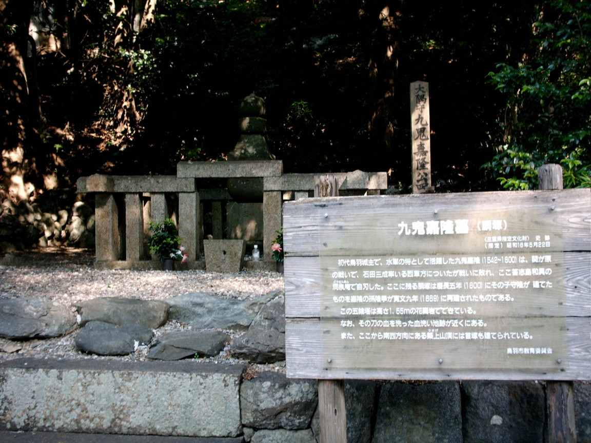 Douduka of Yoshitaka Kuki in Toshi-jima iland in Toba city Mie Prf. Japan.